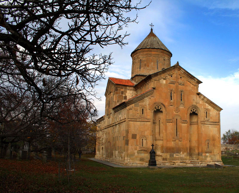 Early 13th-century Ertatsminda church, Shida Kartli, Georgia